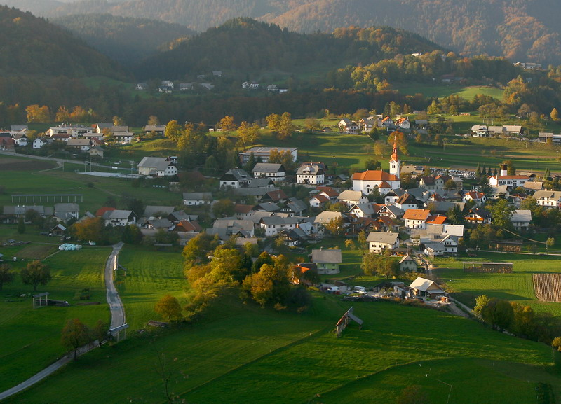 The village of Zgornje Gorje near Bled, Slovenia